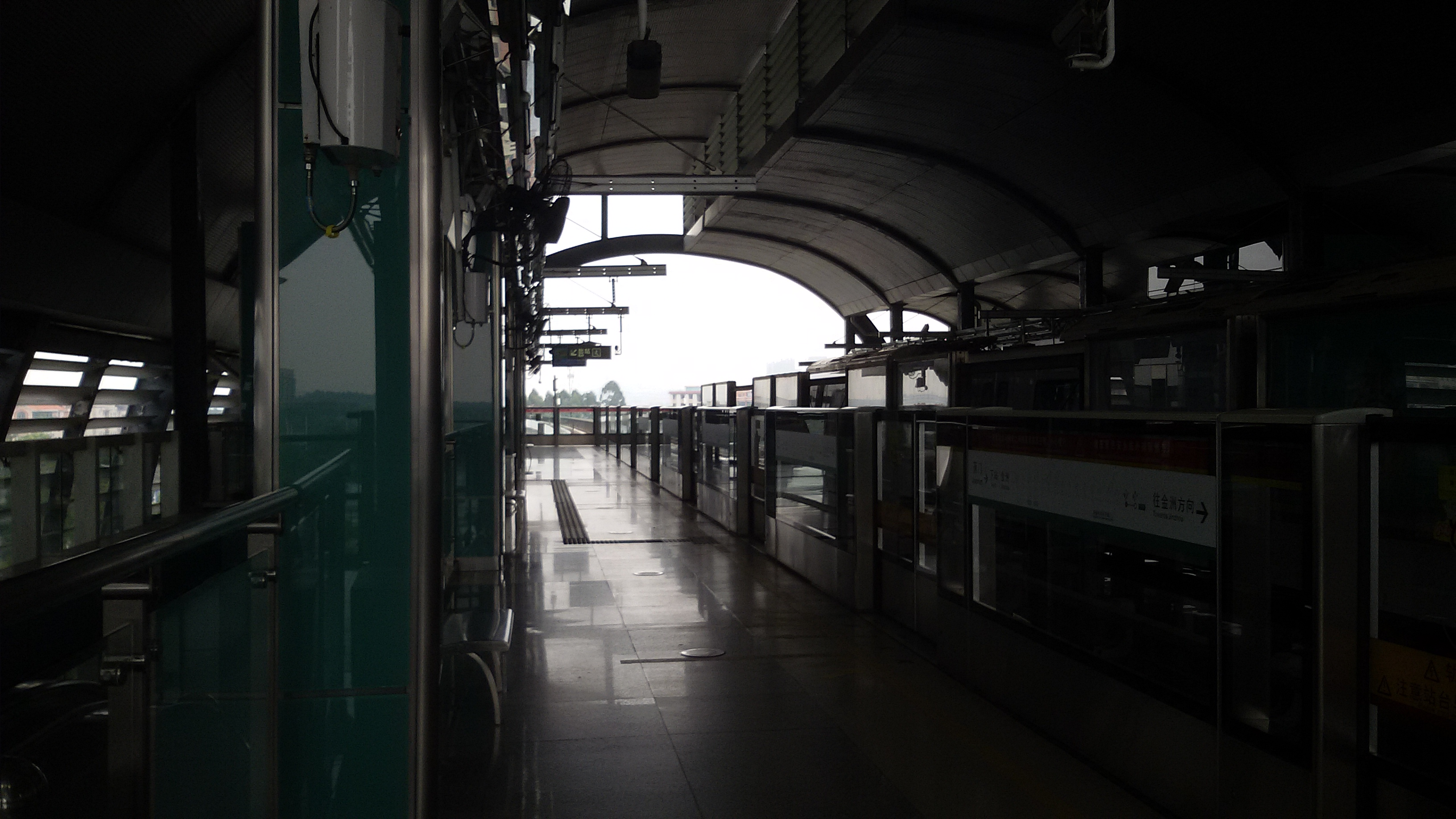 Platform for Jiaomen Station in Guangzhou Metro.